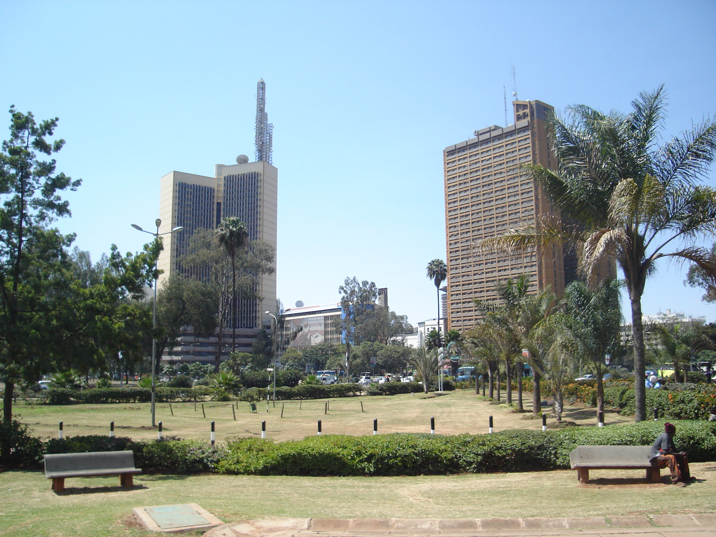 Uhuru Park view of the city of Nairobi